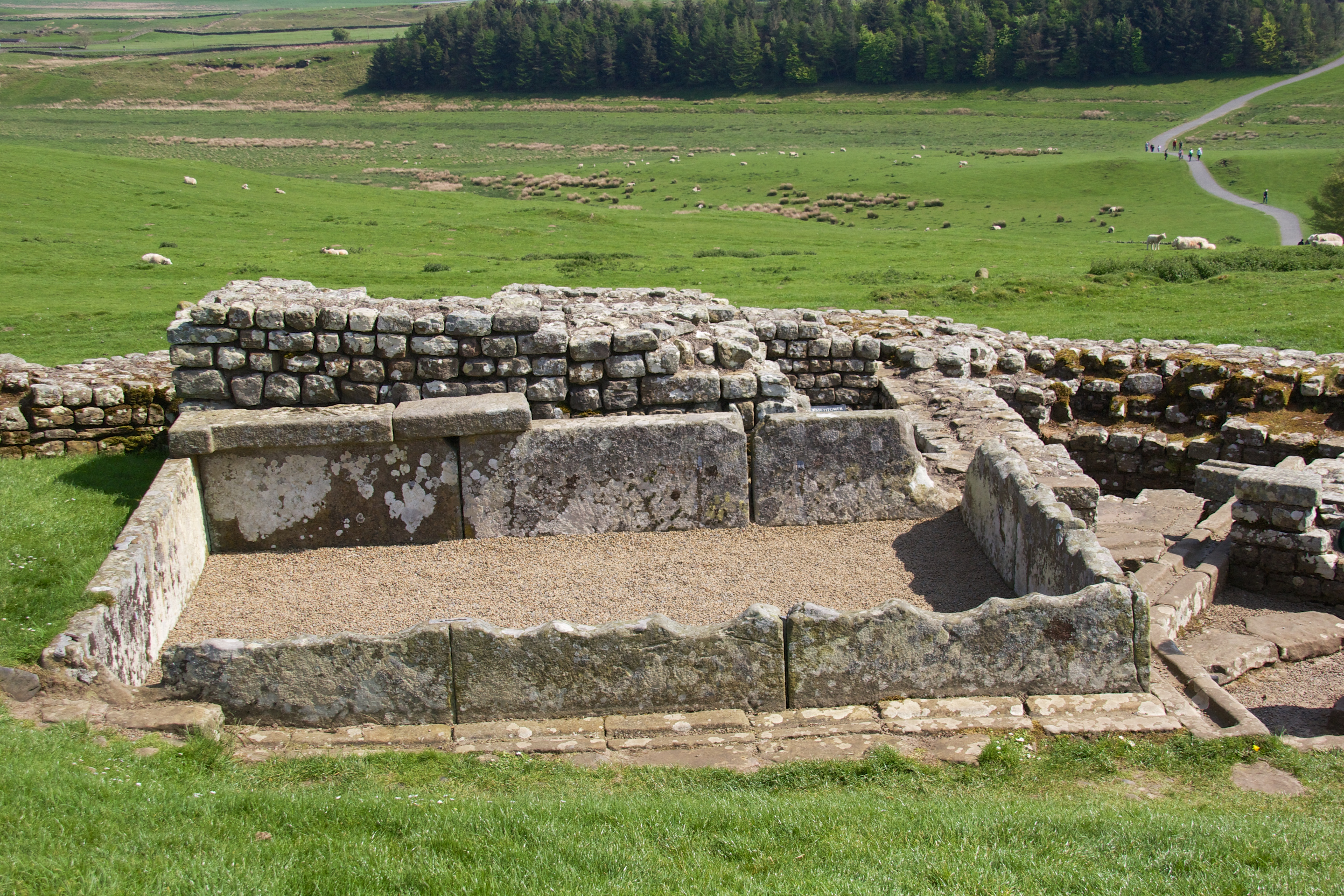 Housesteads roman fort on Hadrian's Wall.